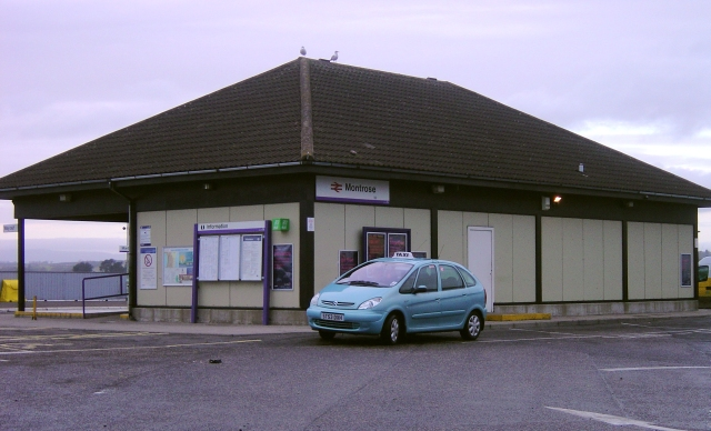 Montrose Railway Station